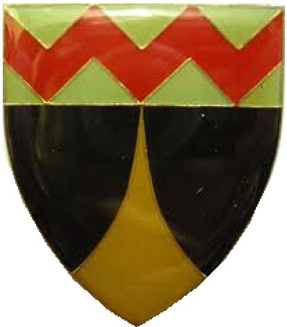 SADF Regiment Vaalrivier emblem